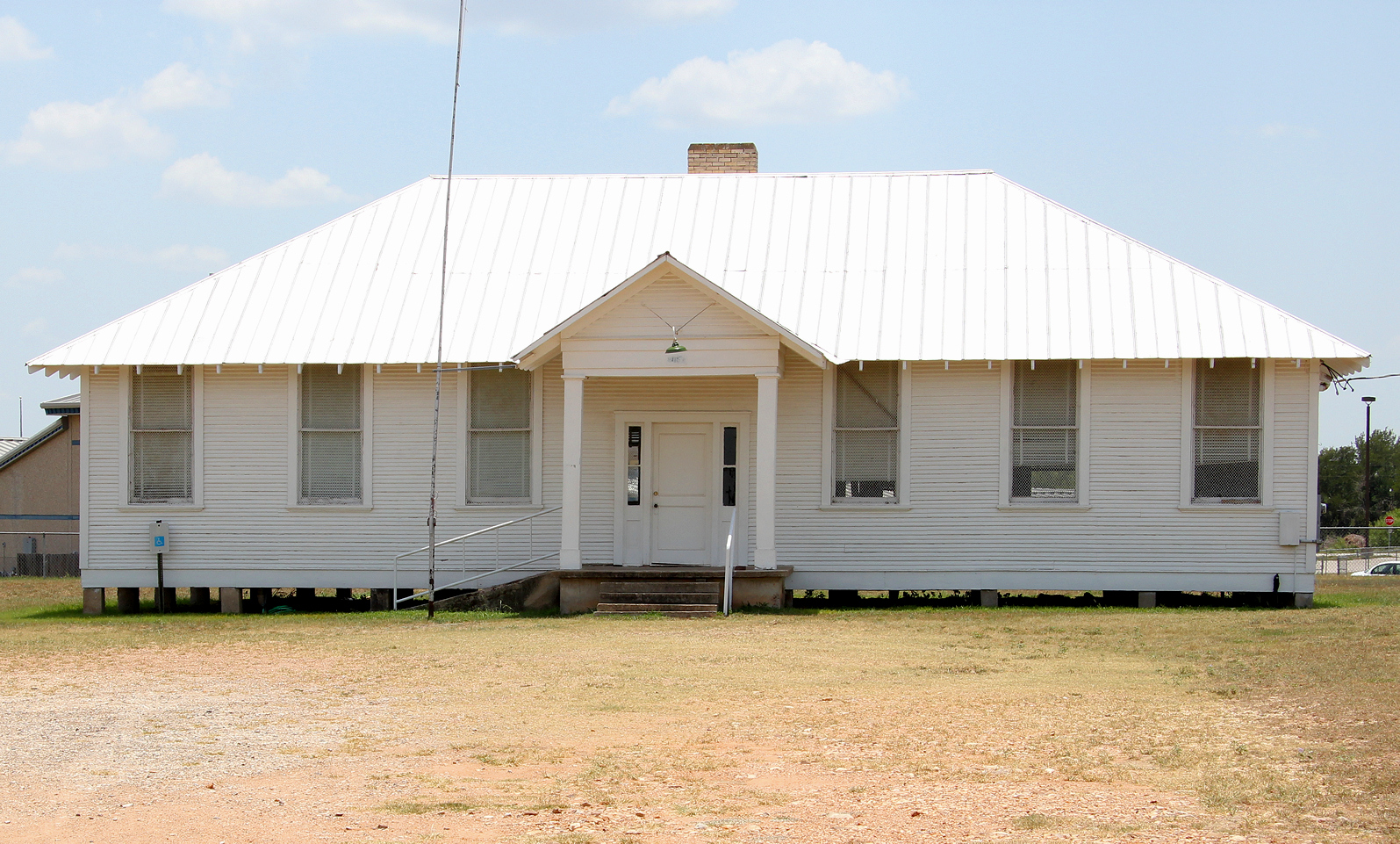 The Cedar Creek Cemetery Association Community Center in Cedar Creek, Texas, United States